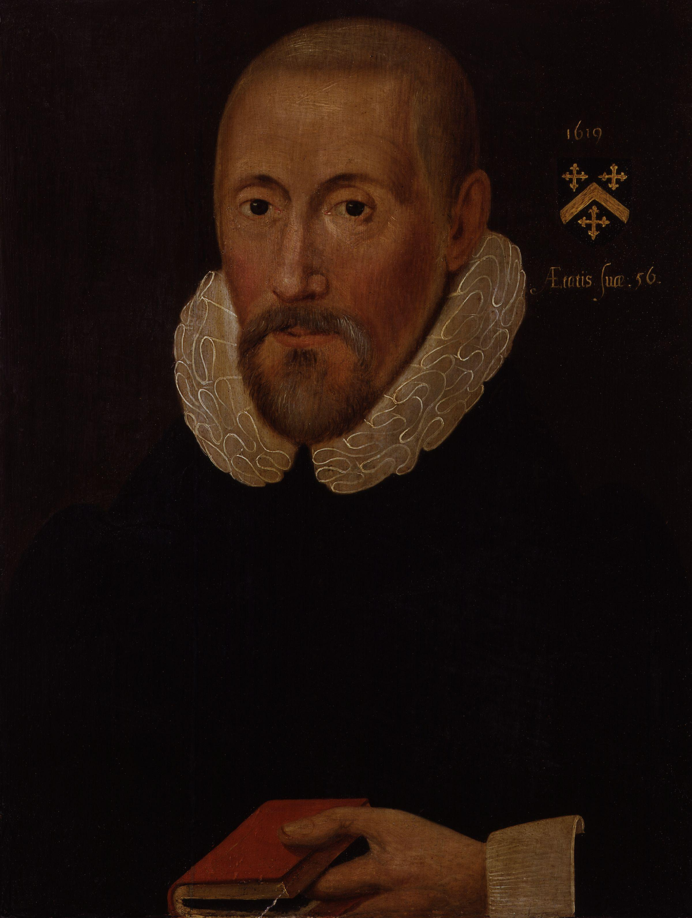 Arthur Hildersham, by unknown artist. All images in this batch are listed as "unknown author" by the NPG, who is diligent in researching authors, and was donated to the NPG before 1939 according to their website.